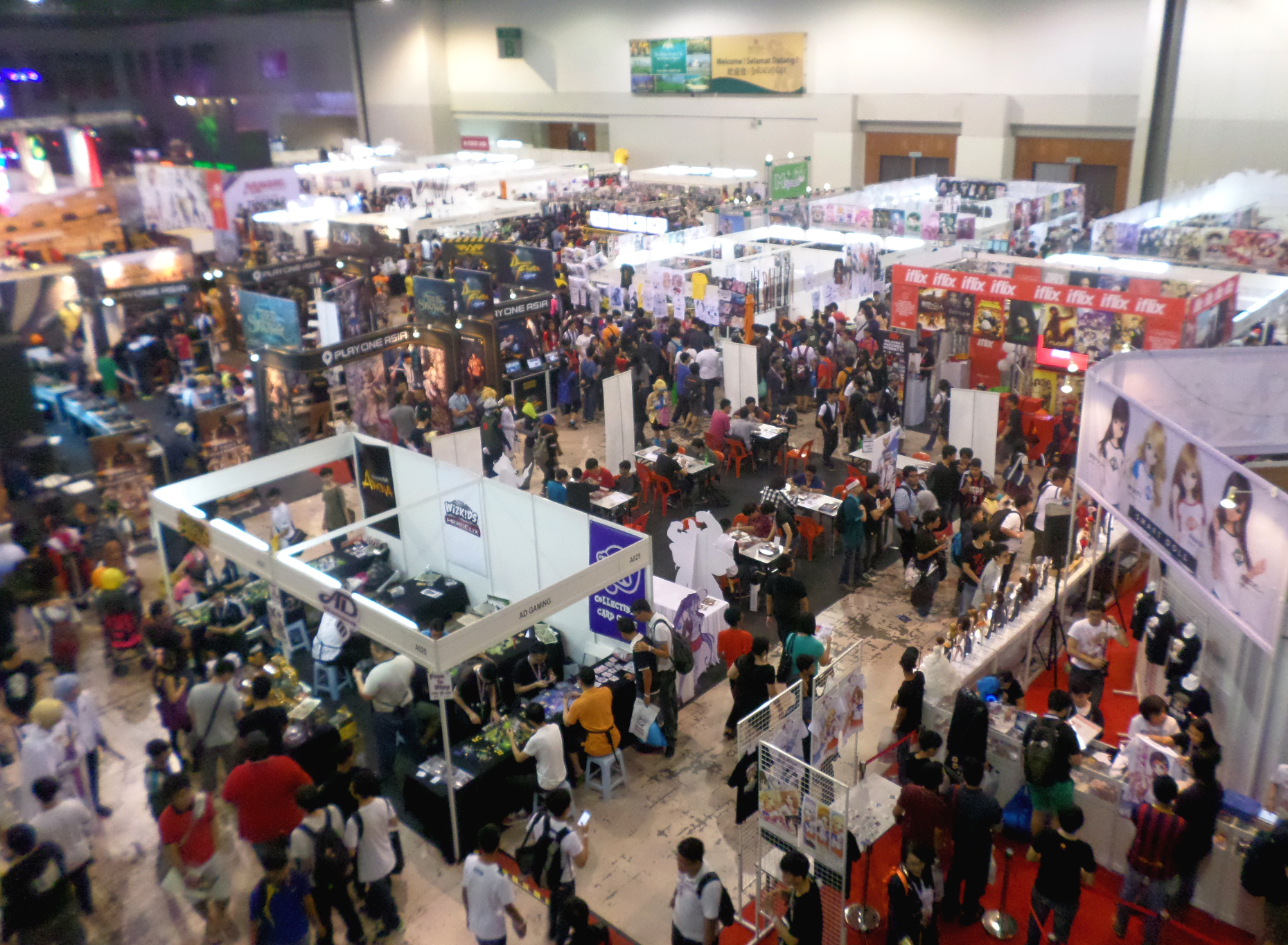 Comic Fiesta 2015 @ Malaysia International Exhibition & Convention Center, The Mines, Seri Kembangan, Petaling, Selangor, Malaysia